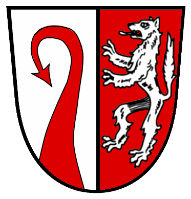 Coat of Arms of Eltingshausen